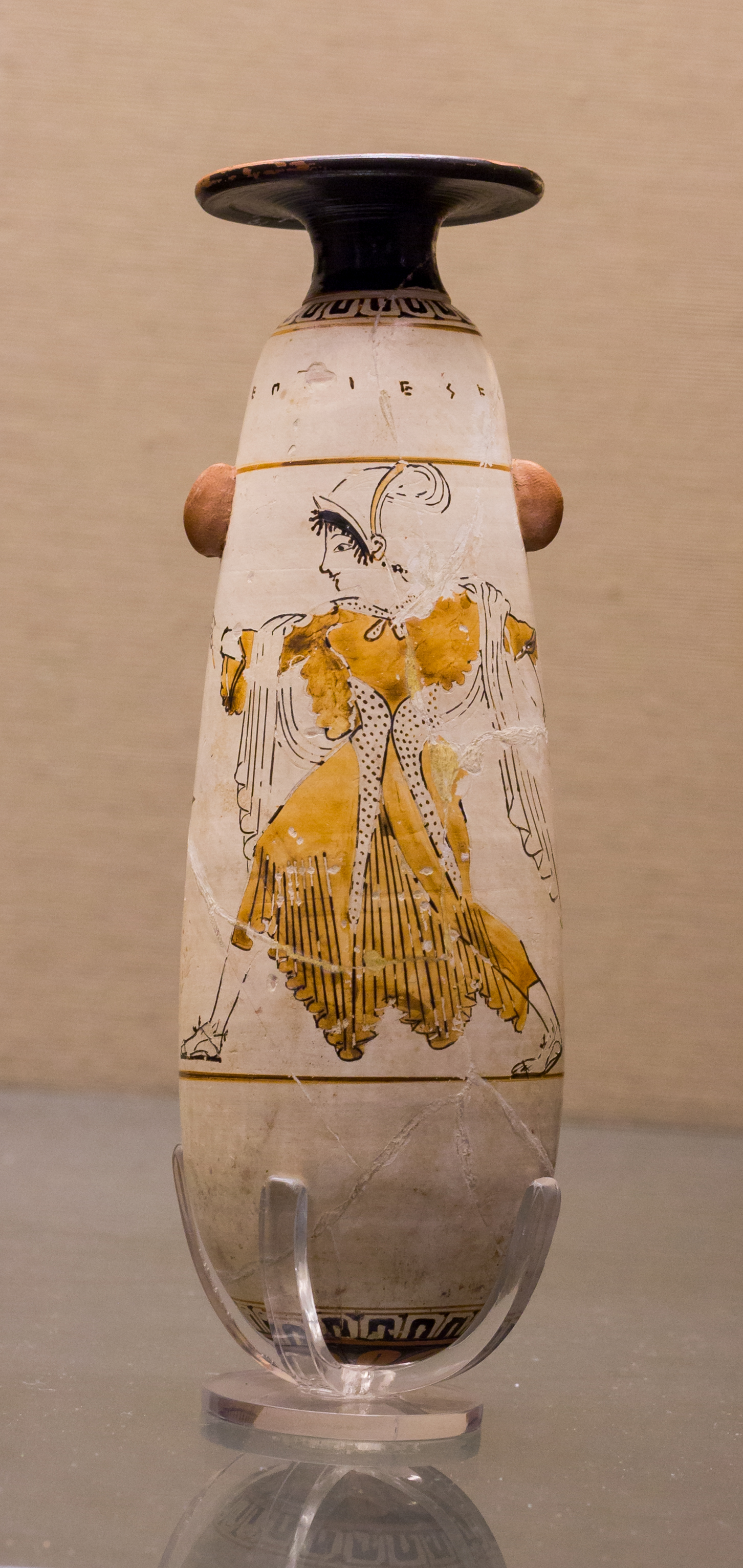 object type / vase shape: attic white ground Alabastron - description: heron standing between 2 running women (maenads?) holding phiale and sprigs; inscription on the zone above the picture: HO PAIS KALOS - production place: Athens - potter: Pasiades, signed on the topside of the mouth: PASIADES EPOIESEN - painter: Pasiades Painter - period / date: late archaic, ca. 510 BC - material: pottery (clay) - height: 14,6 cm - findspot: Cyprus, Marion-Arsinoe, necropolis II, tomb 162 - museum / inventory number: London, British Museum 1887,0801.61 Cat. Vases B 668 - bibliography: John D. Beazley, Attic Red-Figure Vase-Painters, Oxford 1963(2), 98, 1 - Please note: The above museum permits photography of its exhibits for private, educational, scientific, non-commercial purposes. If you intend to use the photo for any commercial aime, please contact the museum and ask for permission.